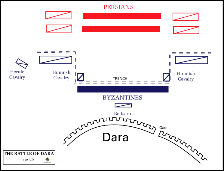 The battleplan of the Battle of Dara